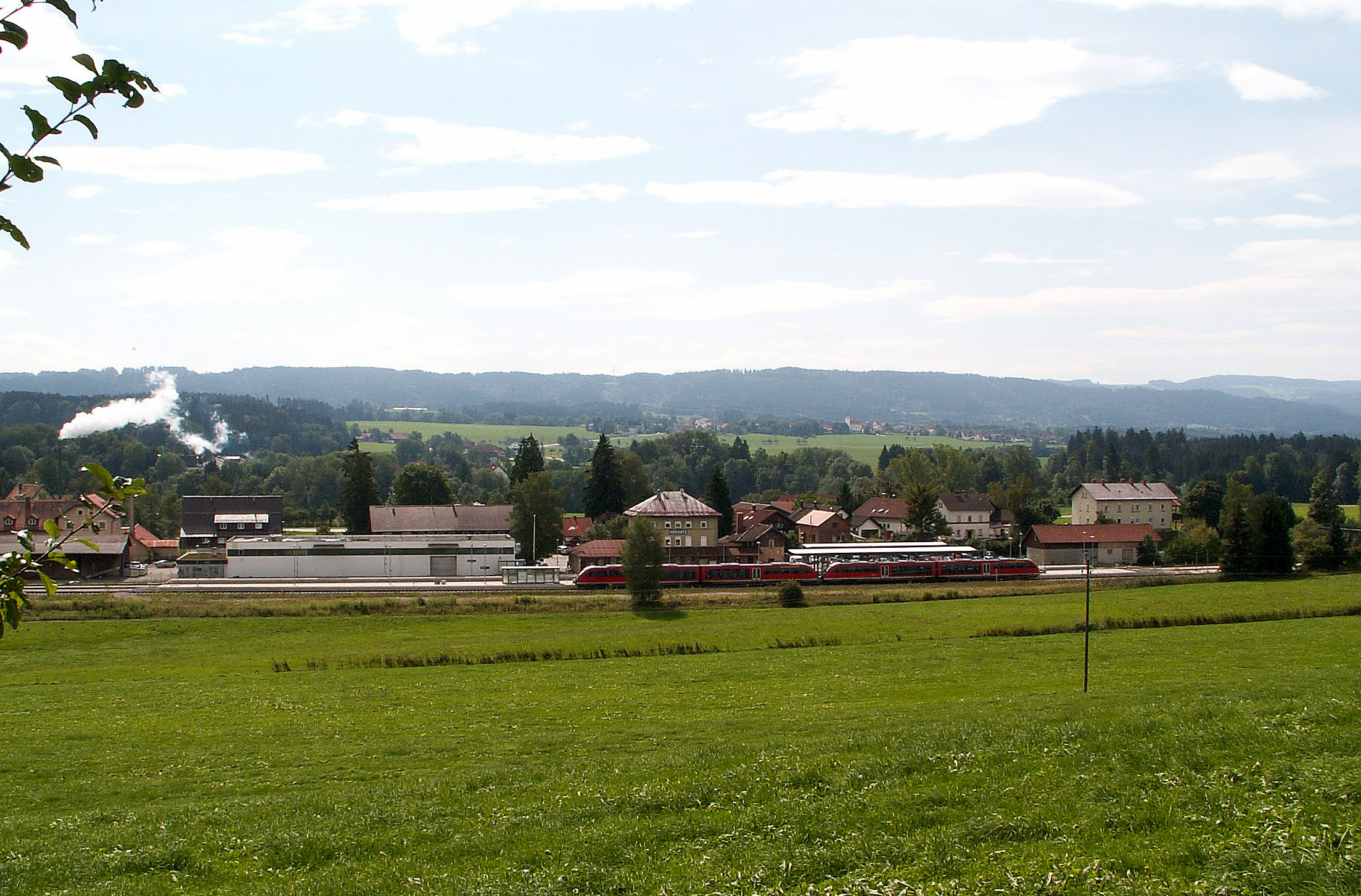 Hergatz von Norden